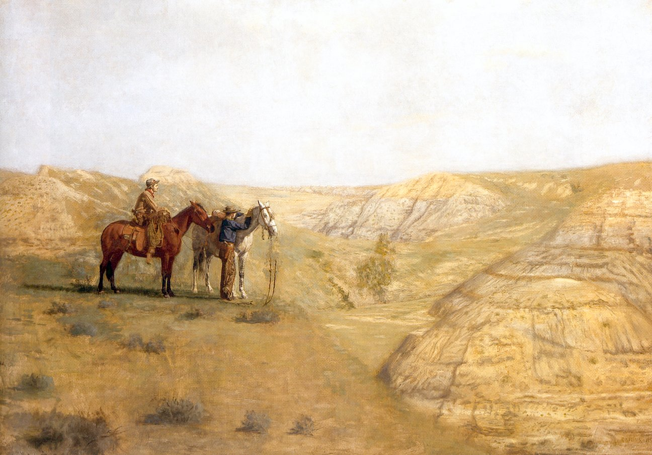 Painting Cowboys in the Bad Lands by Thomas Eakins